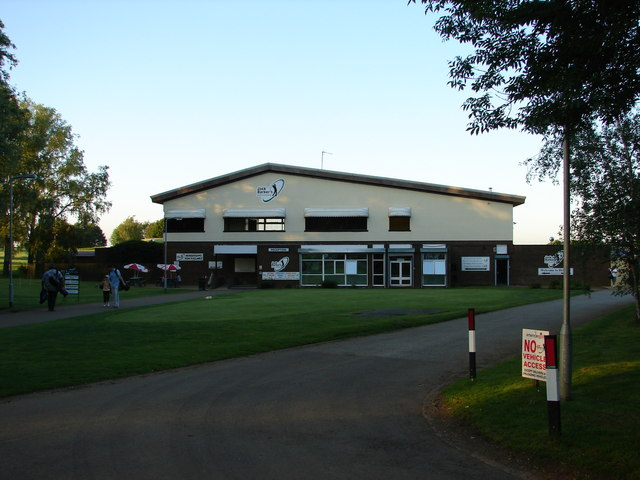 Delapre Golf Centre Clubhouse Beautiful setting for this very busy facility.